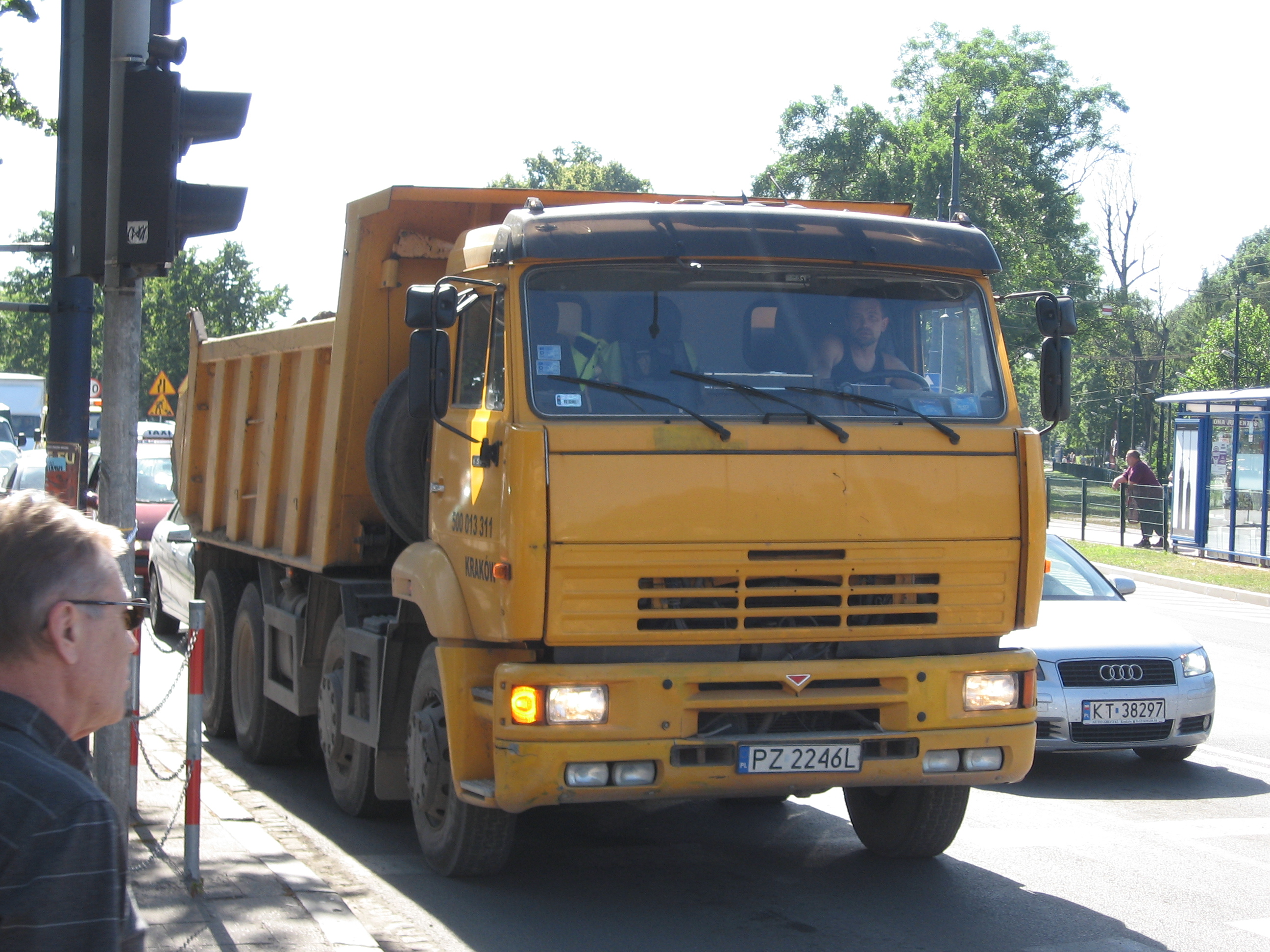 KamAZ-6540 truck on Piłsudskiego avenue in front of the Hotel Orbis Cracovia.